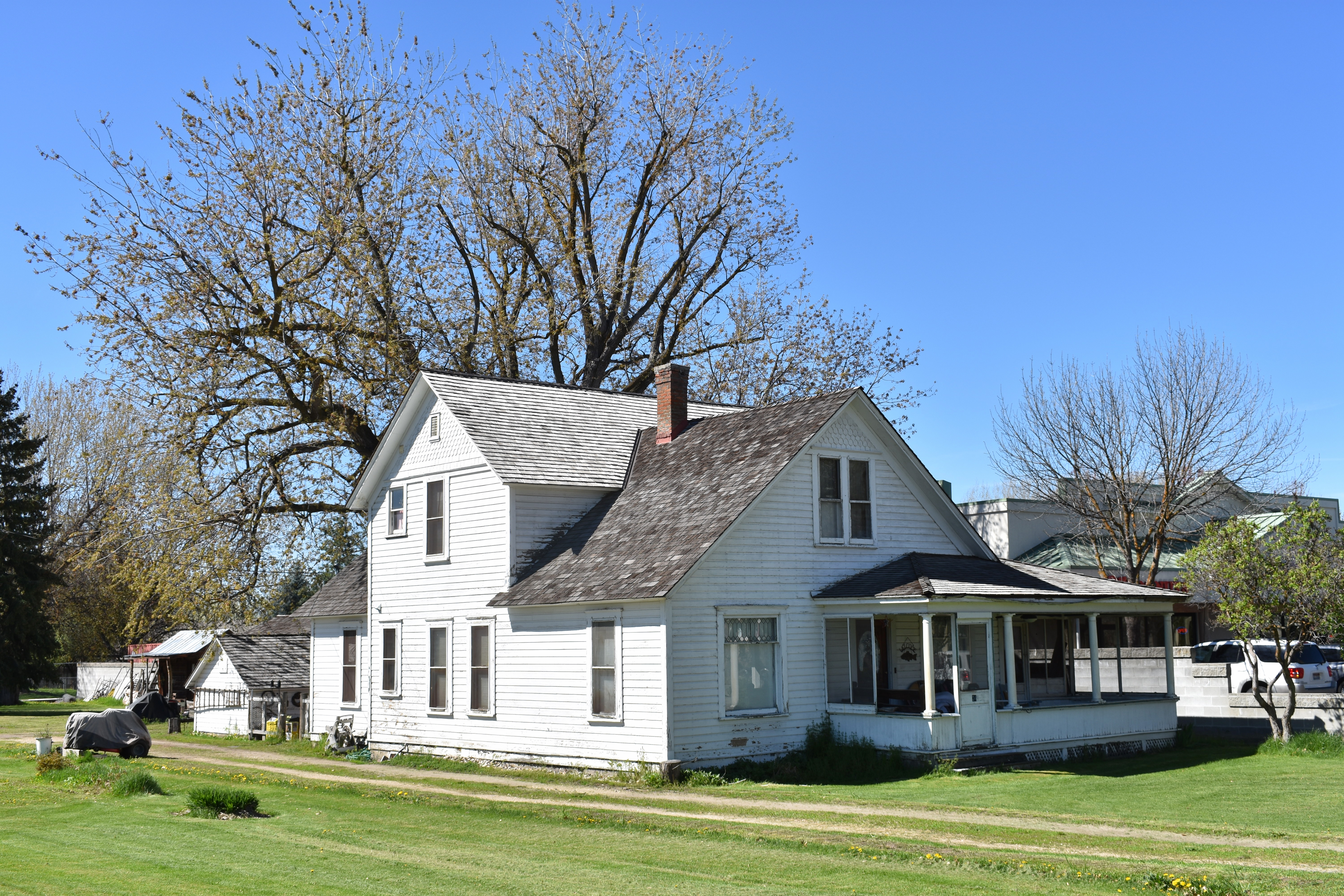 The Bushnell-Fisher House in Eagle, Idaho, was owned by O.H. Bushnell, perhaps as early as 1907. Bushnell Died in Eagle in 1911, and George and Ella Fisher purchased the house in 1917.